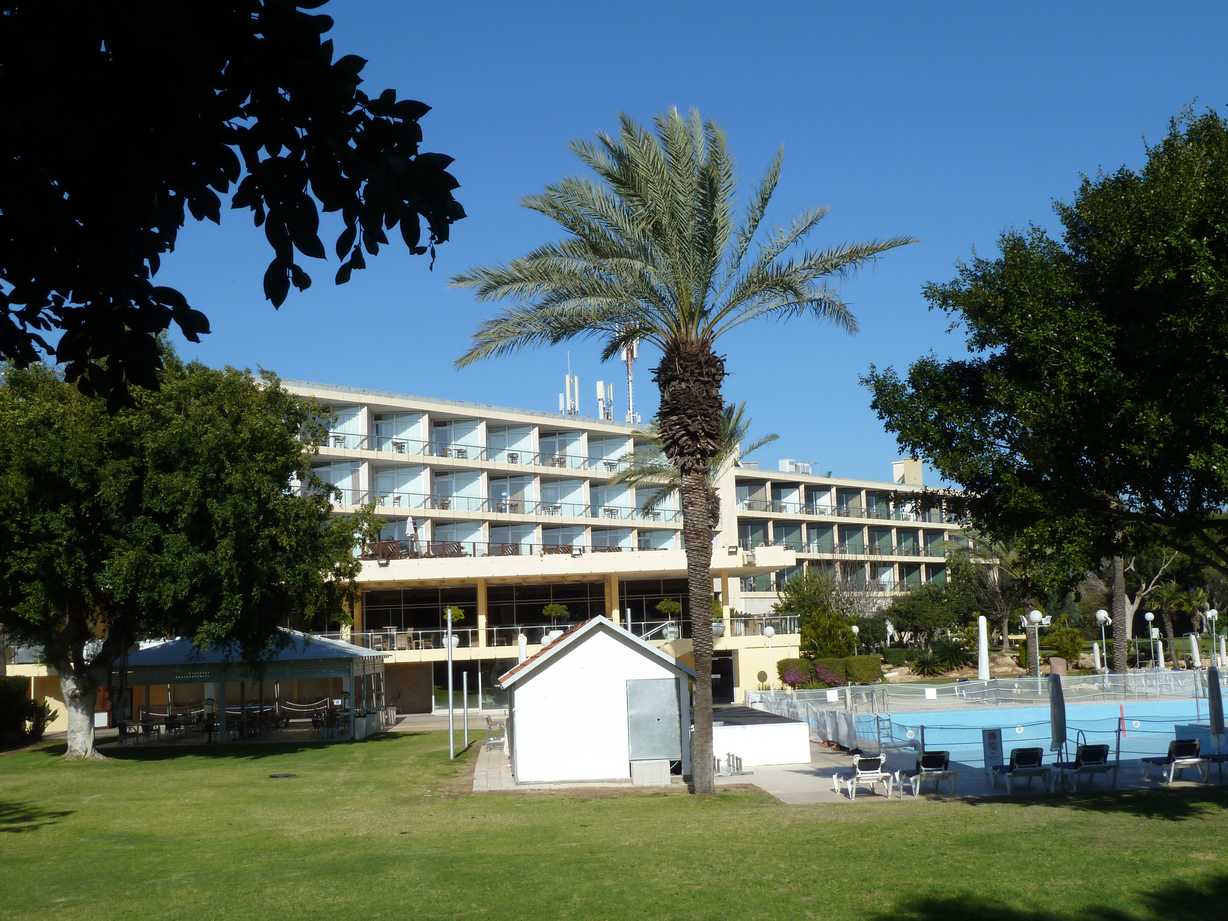 Dan Caesaria, Israel